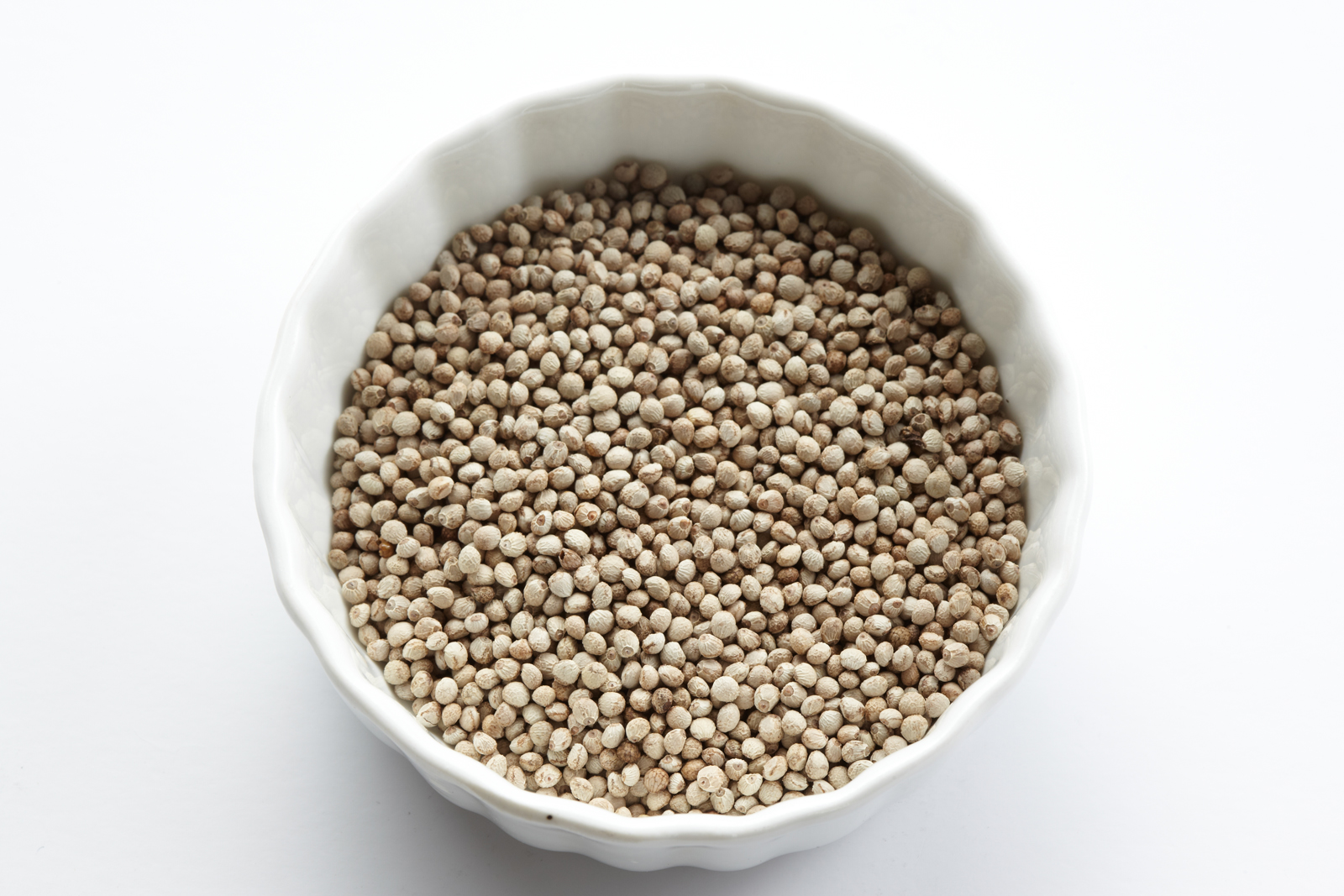 Deulkkae (perilla)